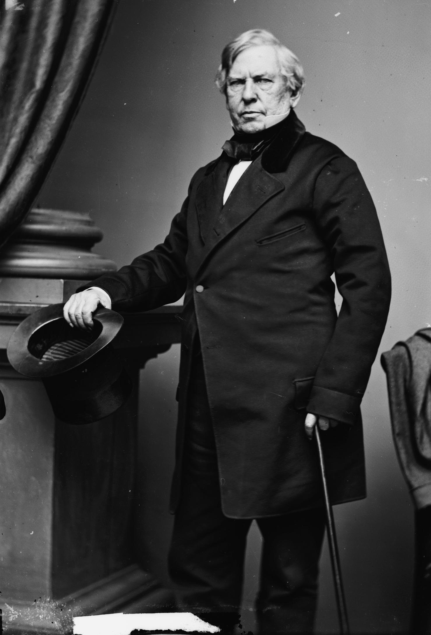 William Winston Seaton. Library of Congress description: "Seaton, W.W., Ex-Mayor of Wash, D.C.".